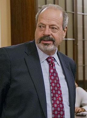 071614: Washington, DC - Mr. John Wagner, Assistant Commissioner, Office of Field Operations, Customs and Border Protection accompanied by Mr. Eugene H. Schied, Assistant Commissioner, Office of Administration, Customs and Border Protection provided testimony and comments at the Subcommittee Hearing: Port of Entry Infrastructure: How Does the Federal Government Prioritize Investments? AC John Wagner seen here speaking with City of El Paso, Texas Mayor Oscar Leeser who also provided witness testimony at the hearing.